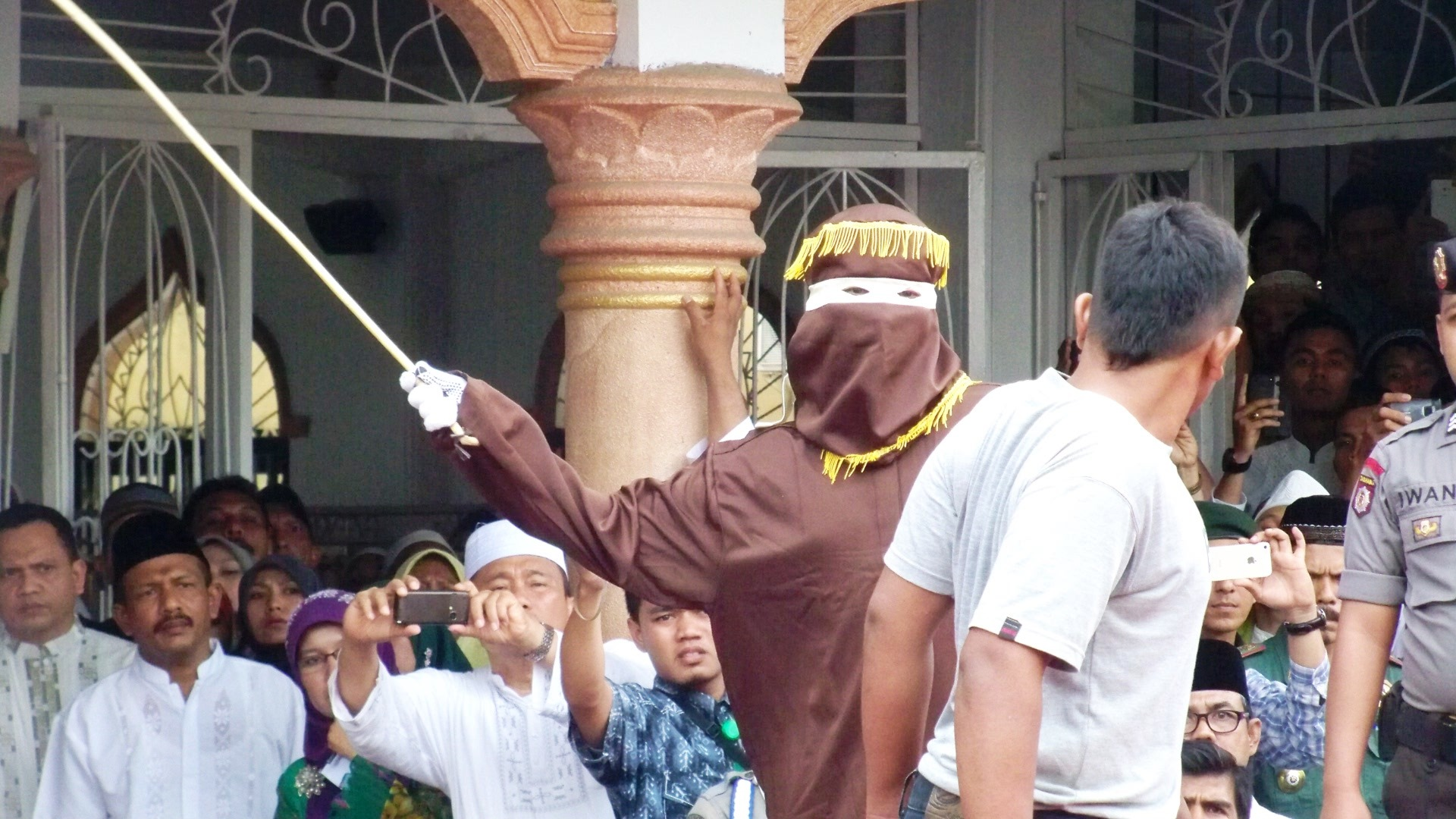 A caning sentence being carried out in Banda Aceh, 19 September 2014